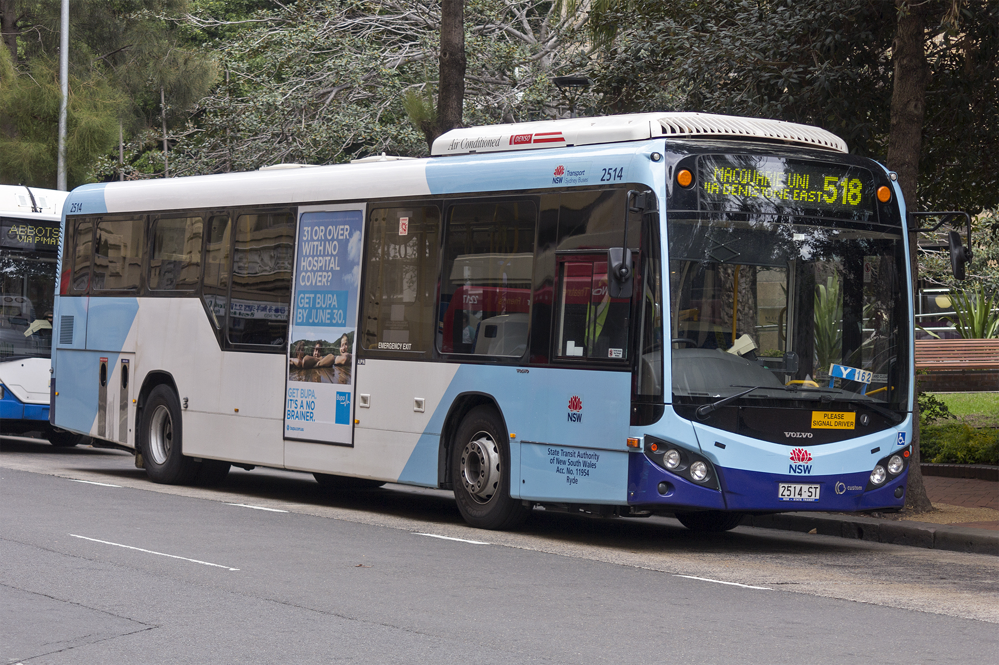 Transport NSW liveried (2514 ST), operated by Sydney Buses, Custom Coaches 'CB80' bodied Volvo B7RLE on Loftus Street in Circular Quay, New South Wales.